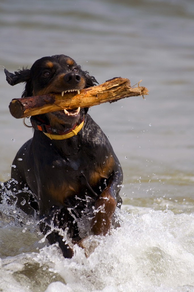 Dog